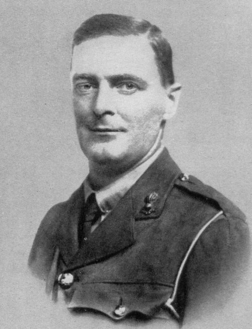 Major Thomas Melville Dill of the Bermuda Contingent of the Royal Garrison Artillery (Bermuda Militia Artillery).